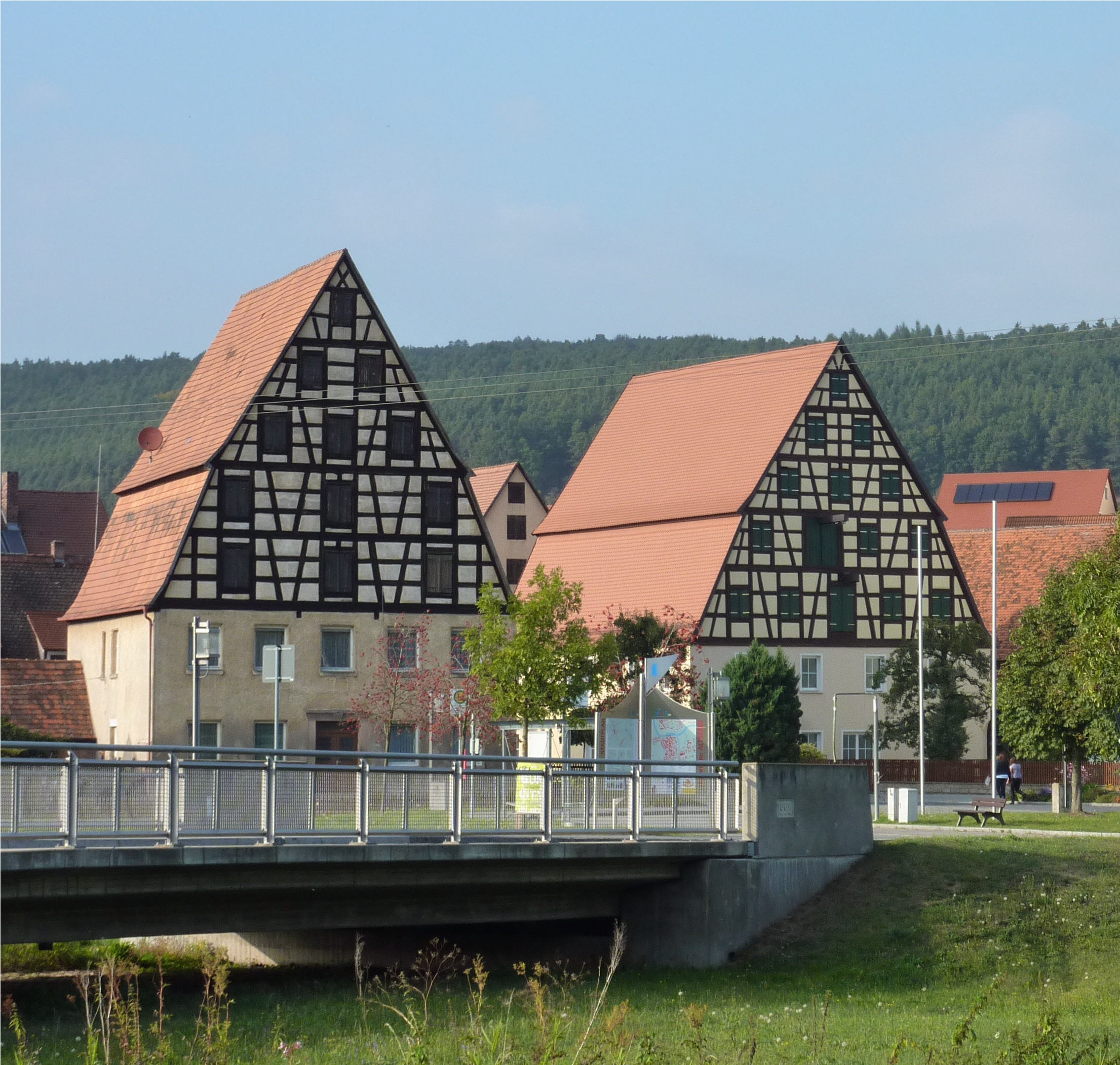 Timber-framed hop farmer's houses in Spalt (Lange Gasse 2 and 1).